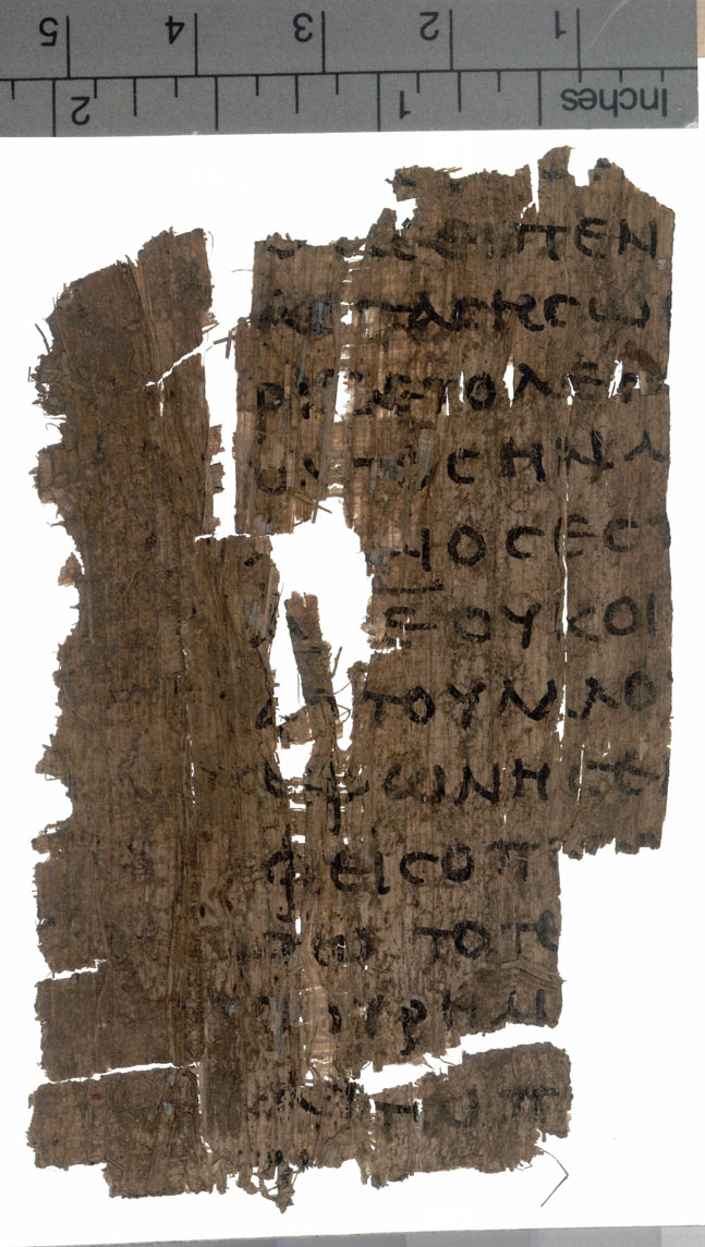 Papyrus 69 or P. Oxy 2383